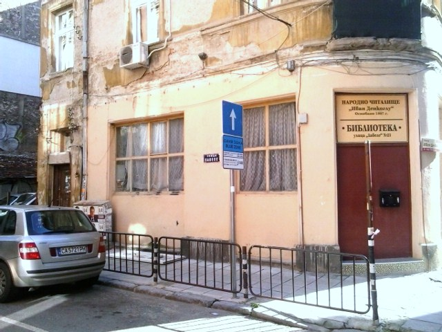 Émile Louis Victor de Laveleye Street in Sofia, Bulgaria